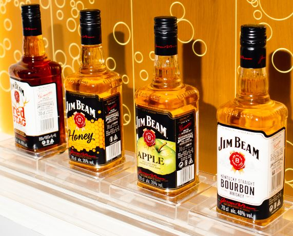 Jim Beam four bottles two white label, apple and honey